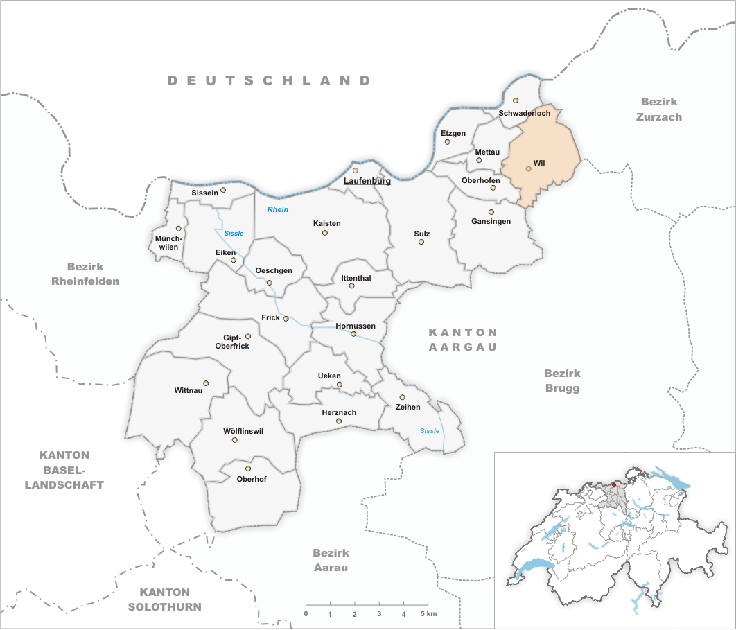 Municipality Wil